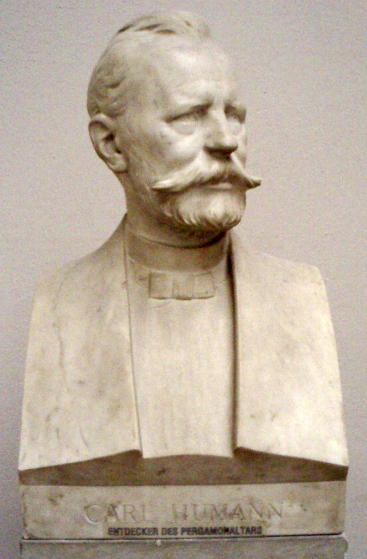 Bust of Carl Humann, residing in the Pergamon Museum, Berlin. Sculptor: Adolf Brütt